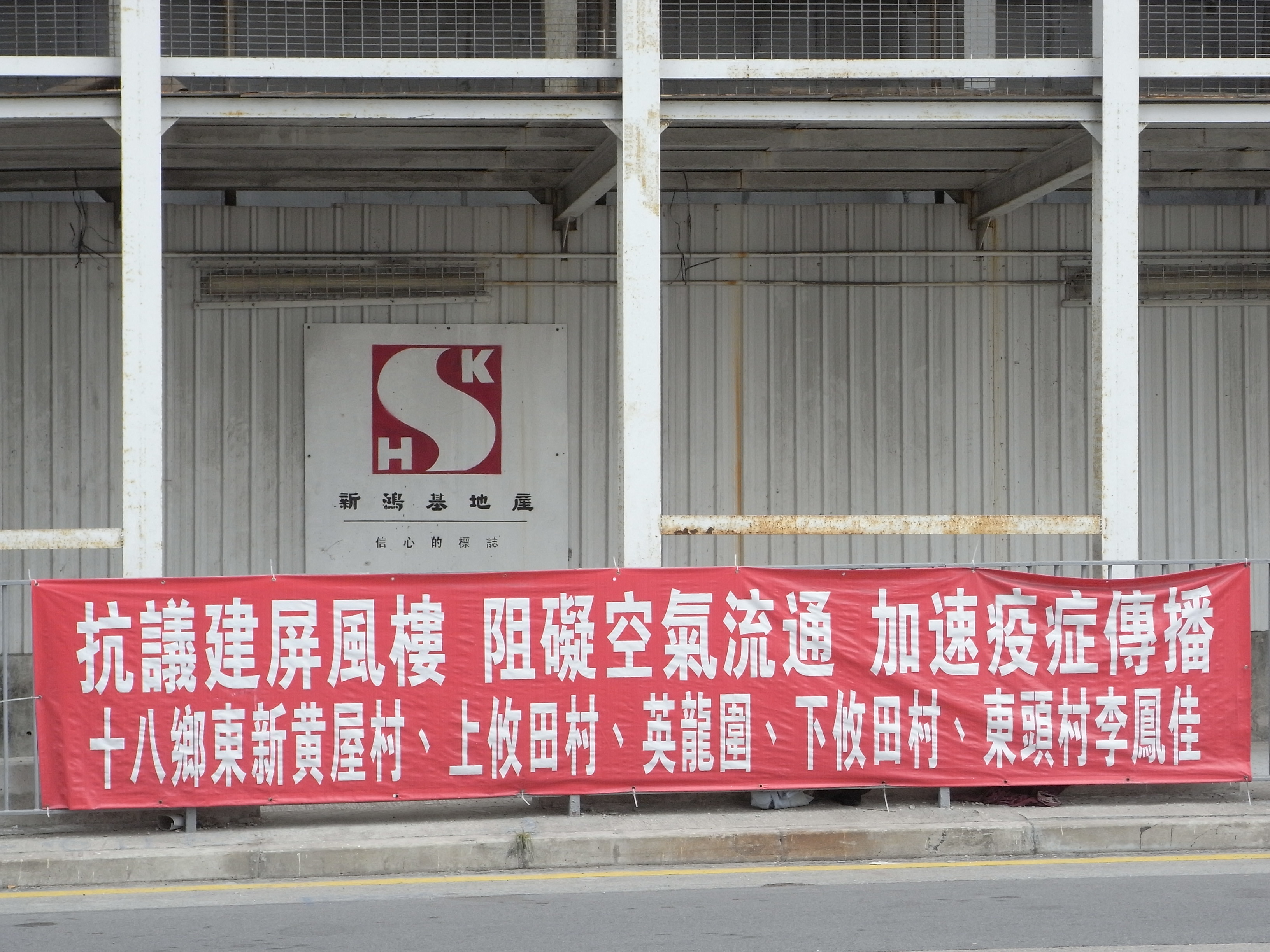 元朗 元龍街 新鴻基地產 建築工地